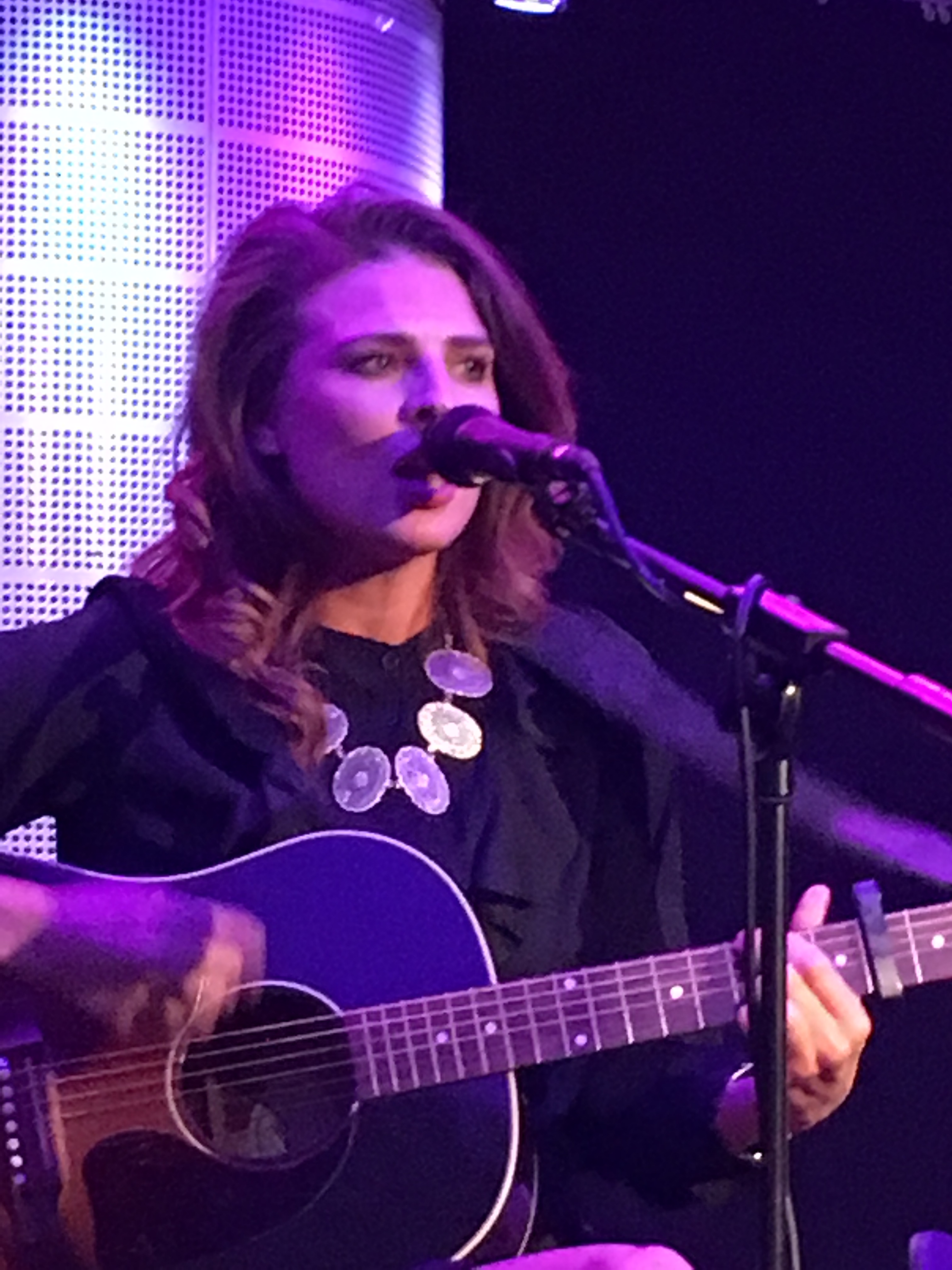 Twinnie Live at the Hospital Club